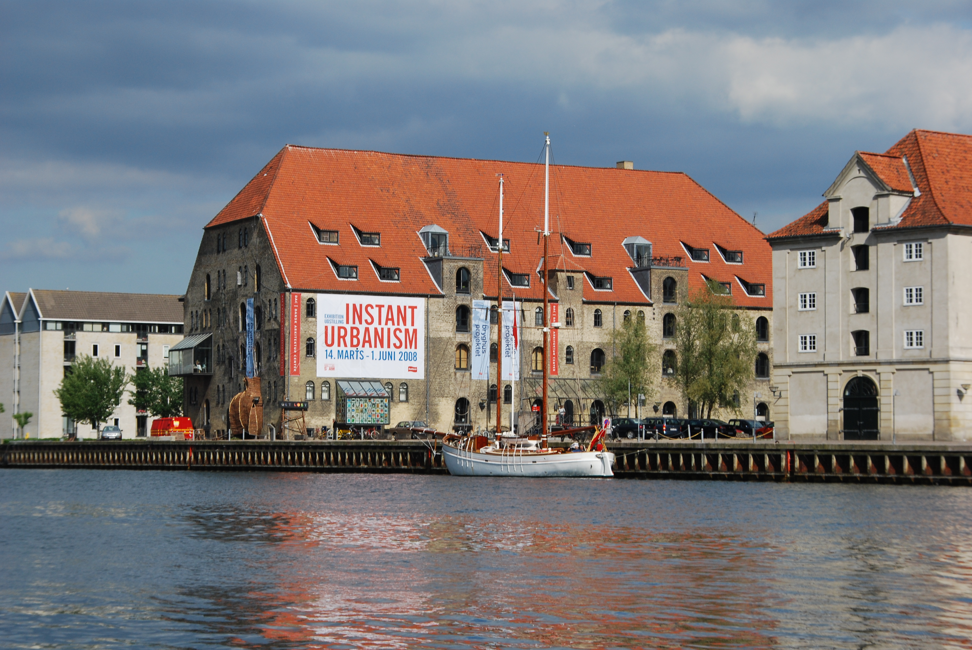 Gammel Dok, a former warehouse now housing Danish Architecture Centre in Copenhagen, Denmark